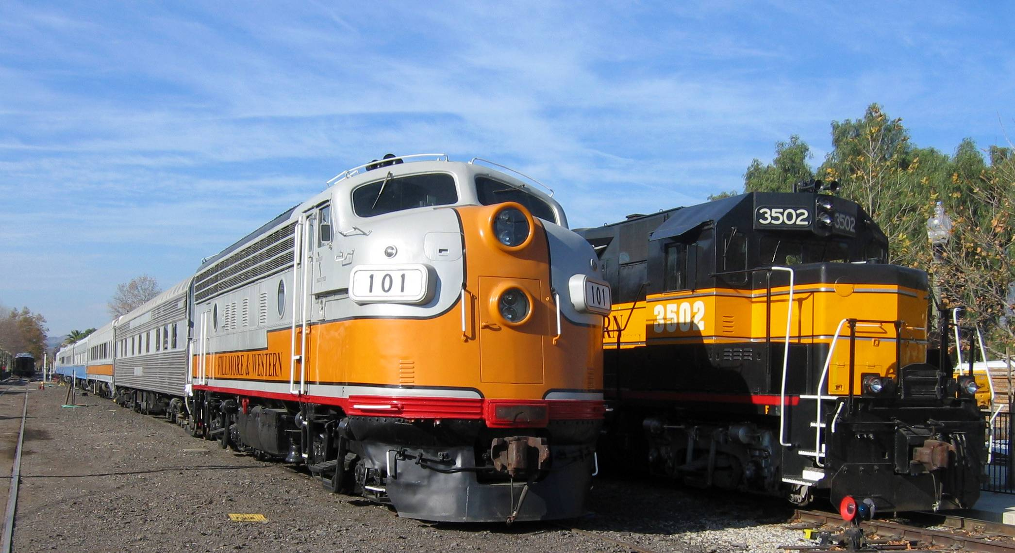 Fillmore and Western Railway EMD F7 No. 101 built in 1949 and GP35 No. 3502 built in 1965.